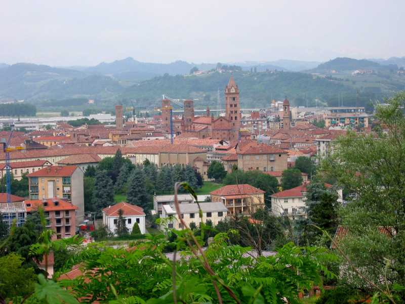 View of the city of Alba in NW Italy